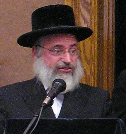 This is a picture of Rabbi Asher Weiss speaking at the Yeshiva in Los Angeles, California.